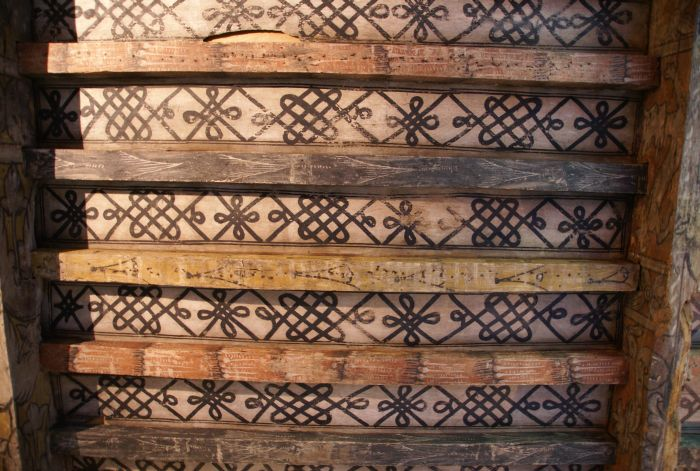 Interior of Huntingtower castle